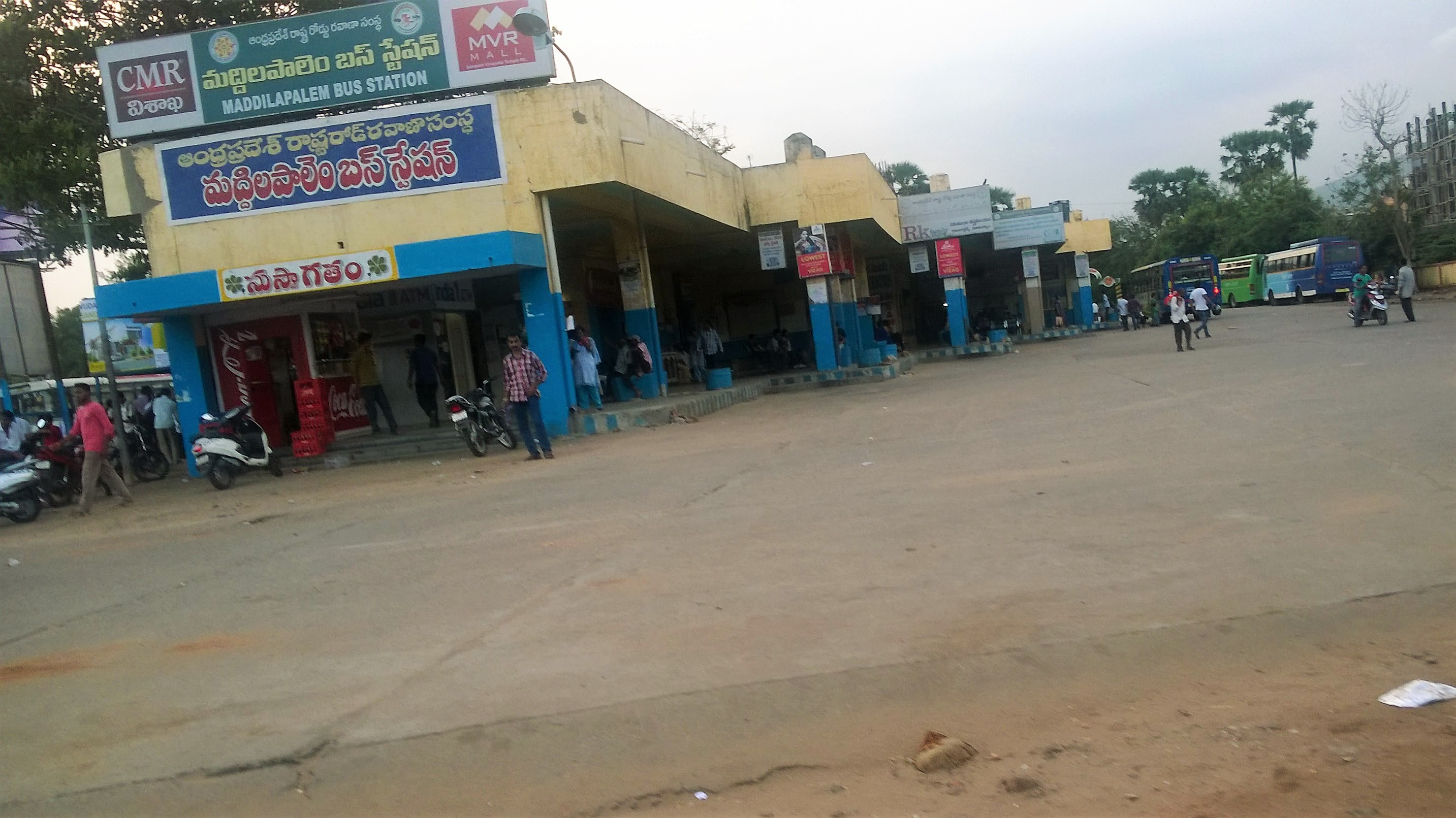 Empty Maddilapalem Bus Station on a morning